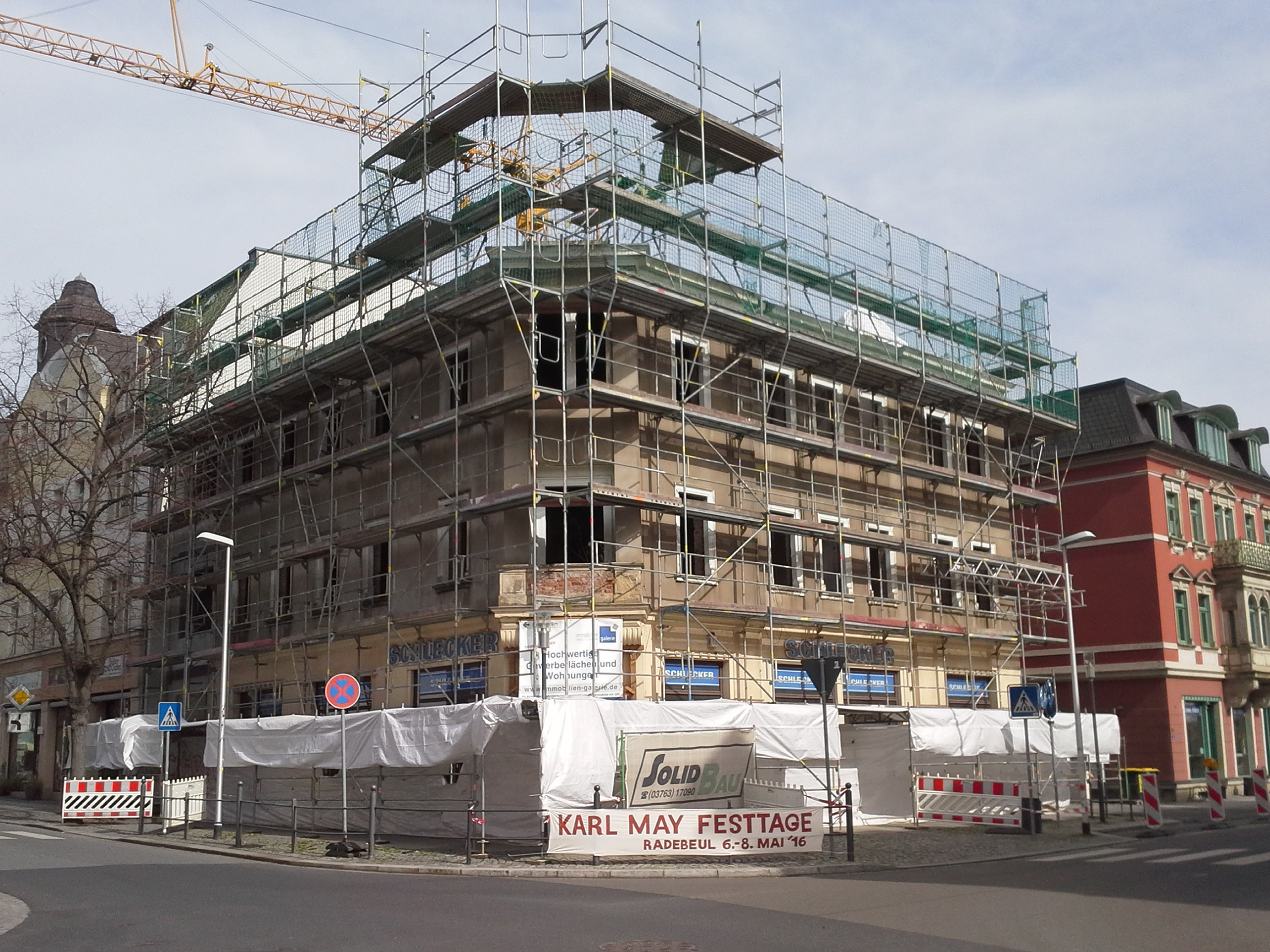 Radebeul, Hauptstr.9, during construction spring 2016